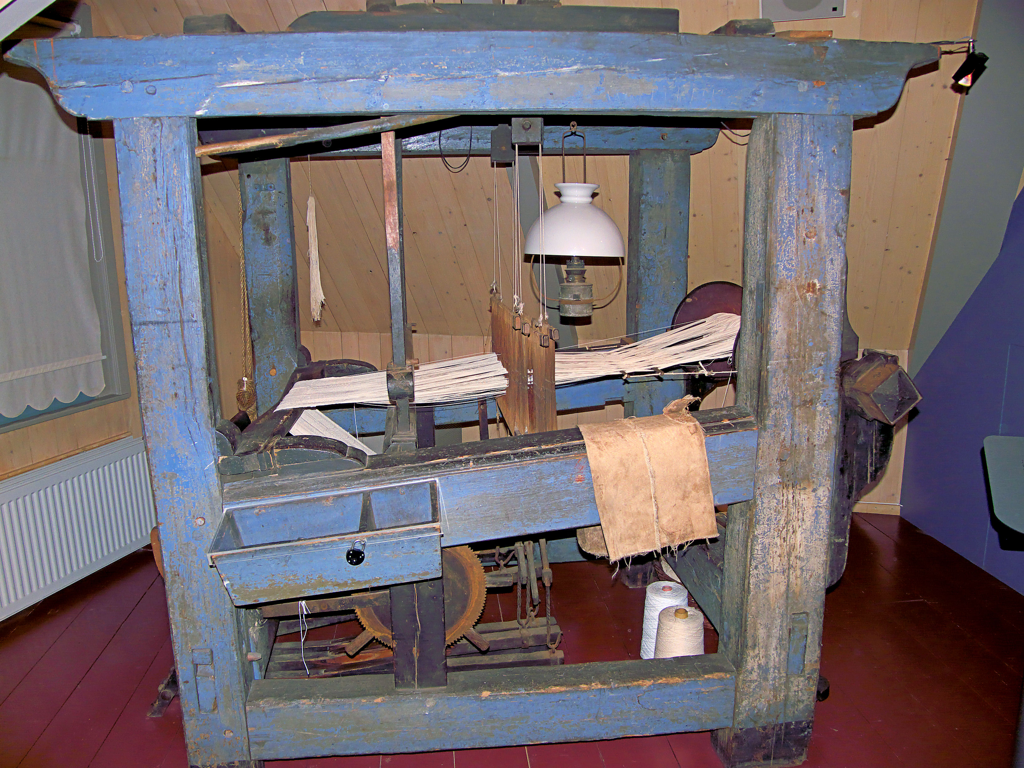 Loom at Molenmuseum Koog aan de Zaan, the Netherlands